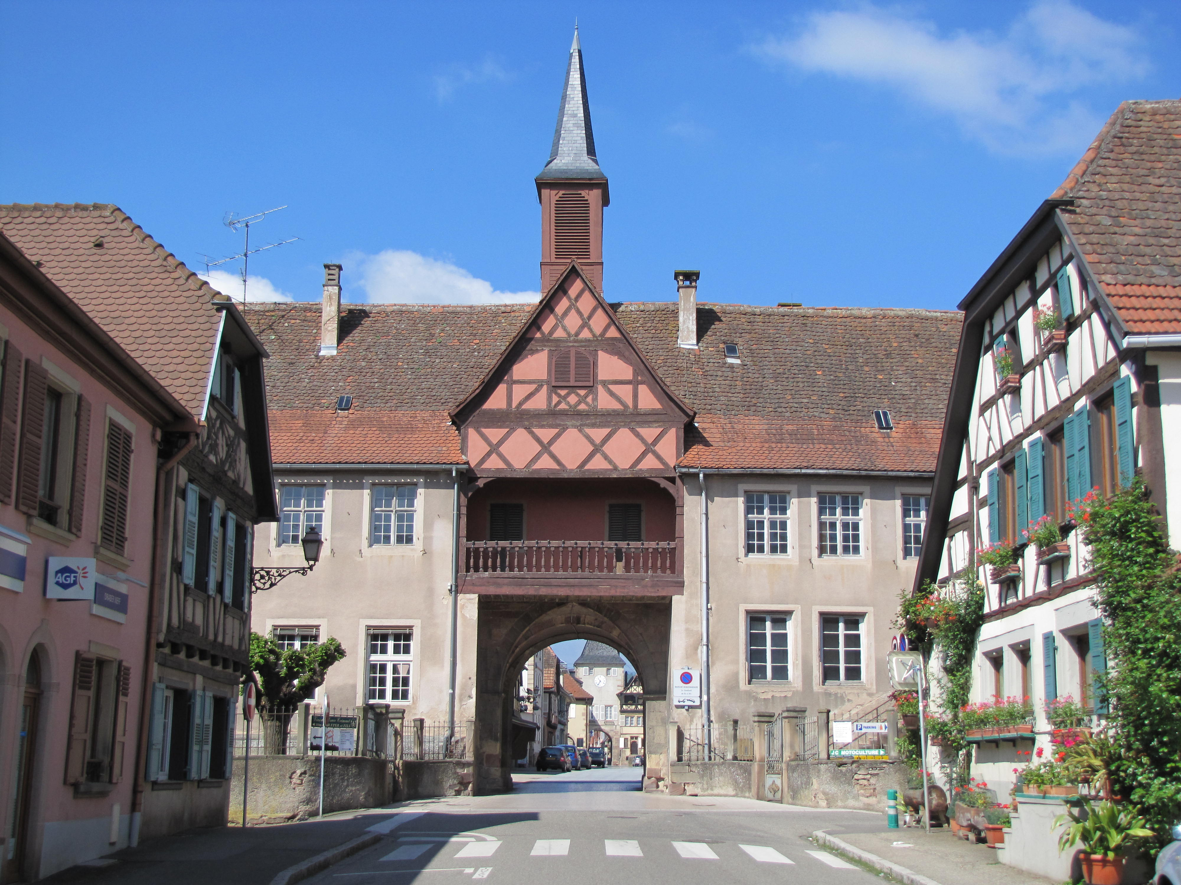 Alsace, Bas-Rhin, Rosheim, Porte de l'enceinte intérieure dite "Porte de l'École": It is indexed in the Base Mérimée, a database of architectural heritage maintained by the French Ministry of Culture, under the references PA00084917 and IA00075636 . Ancienne école (XVIIIe-XIXe): .